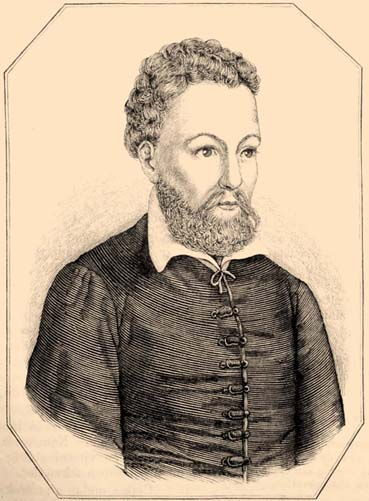 Portrait of Miklós Istvánffy